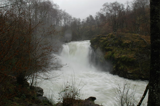 Falls of Falloch Falls of Falloch at flood level